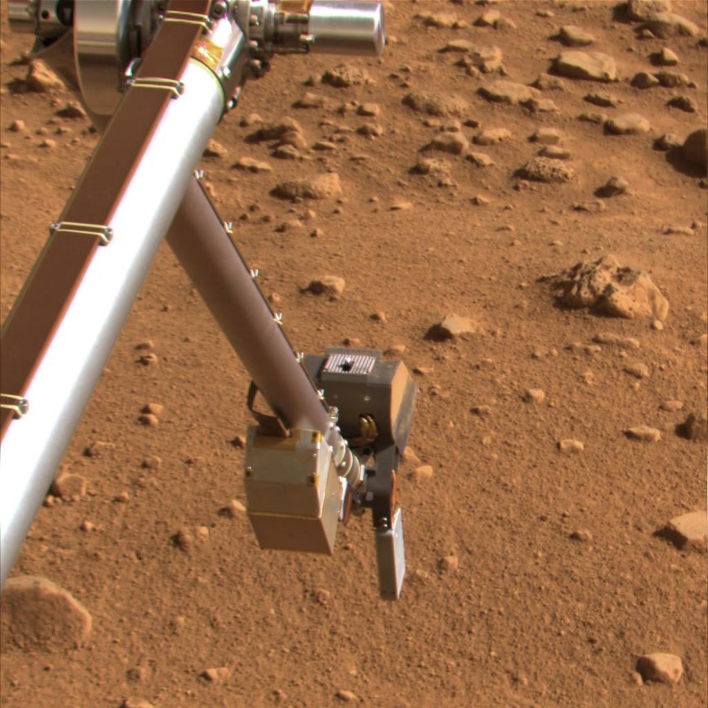 Image of the RASP tool seen in the heel of the Scoop while on the surface of Mars.